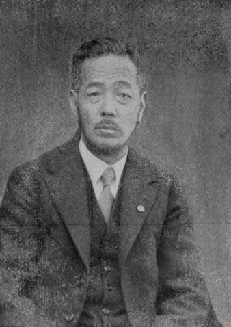 Director Tetsuji Nishiyama (taken in November 1935).